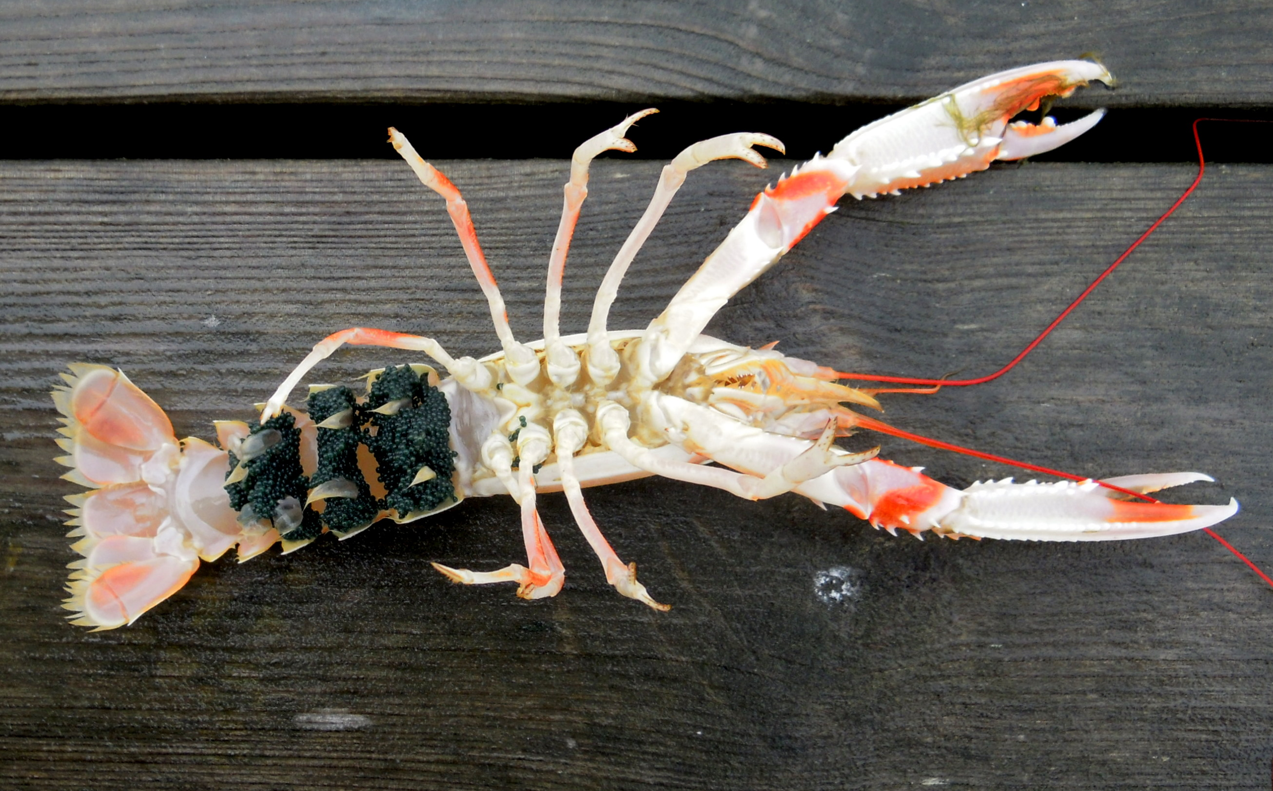 Nephrops norvegicus, known as the Norway lobster - with roe. Stavern, Norway.